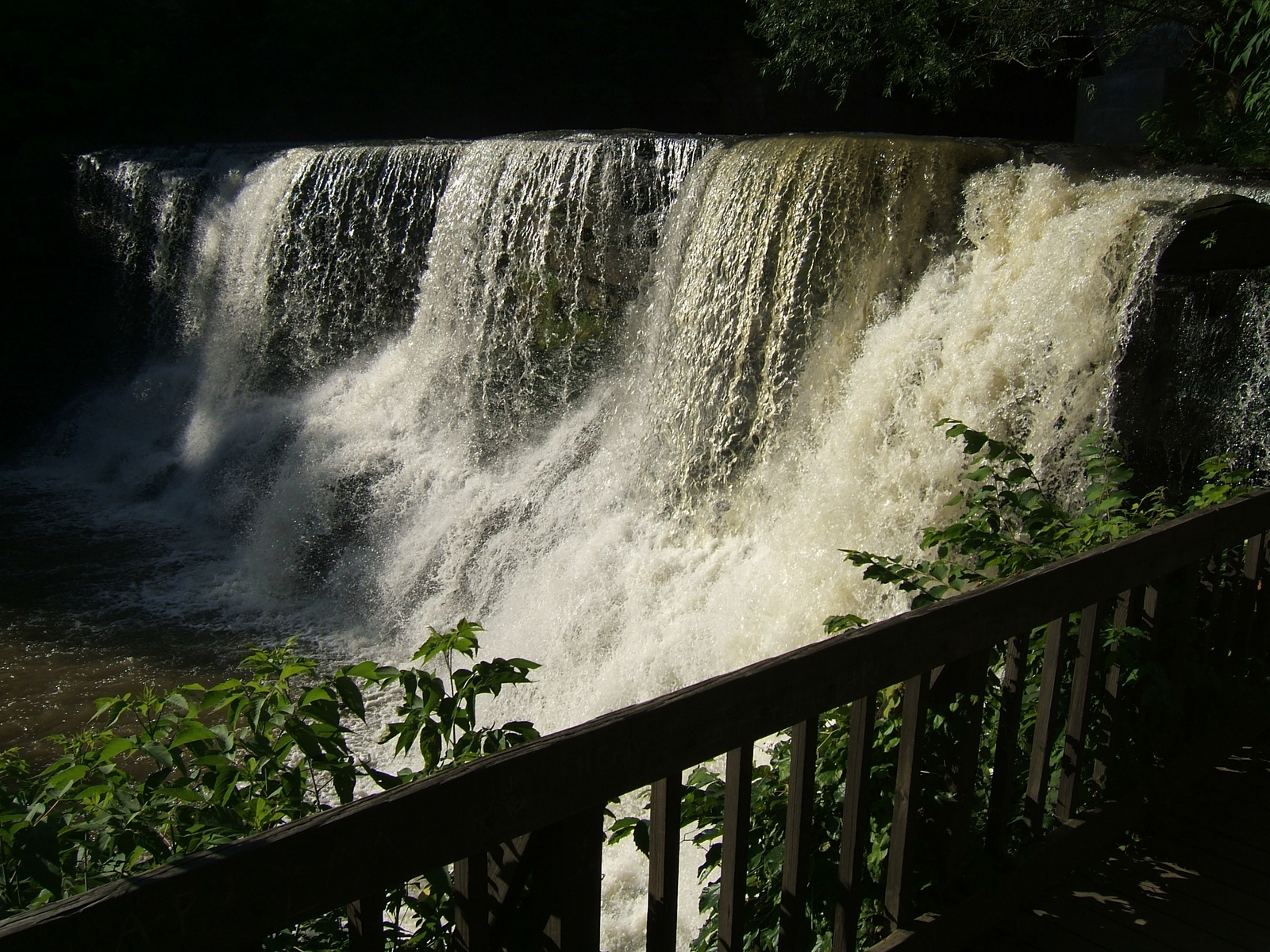 Waterfall in the town of Chagrin Falls, Ohio